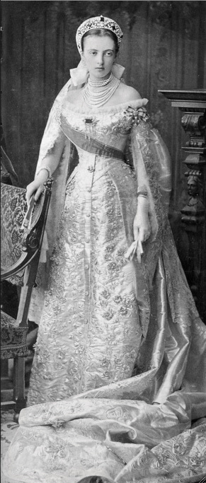 Grand Duchess Anastasia Mikhailovna of Russia, later Duchess Anastasia of Mecklenburg-Schwerin